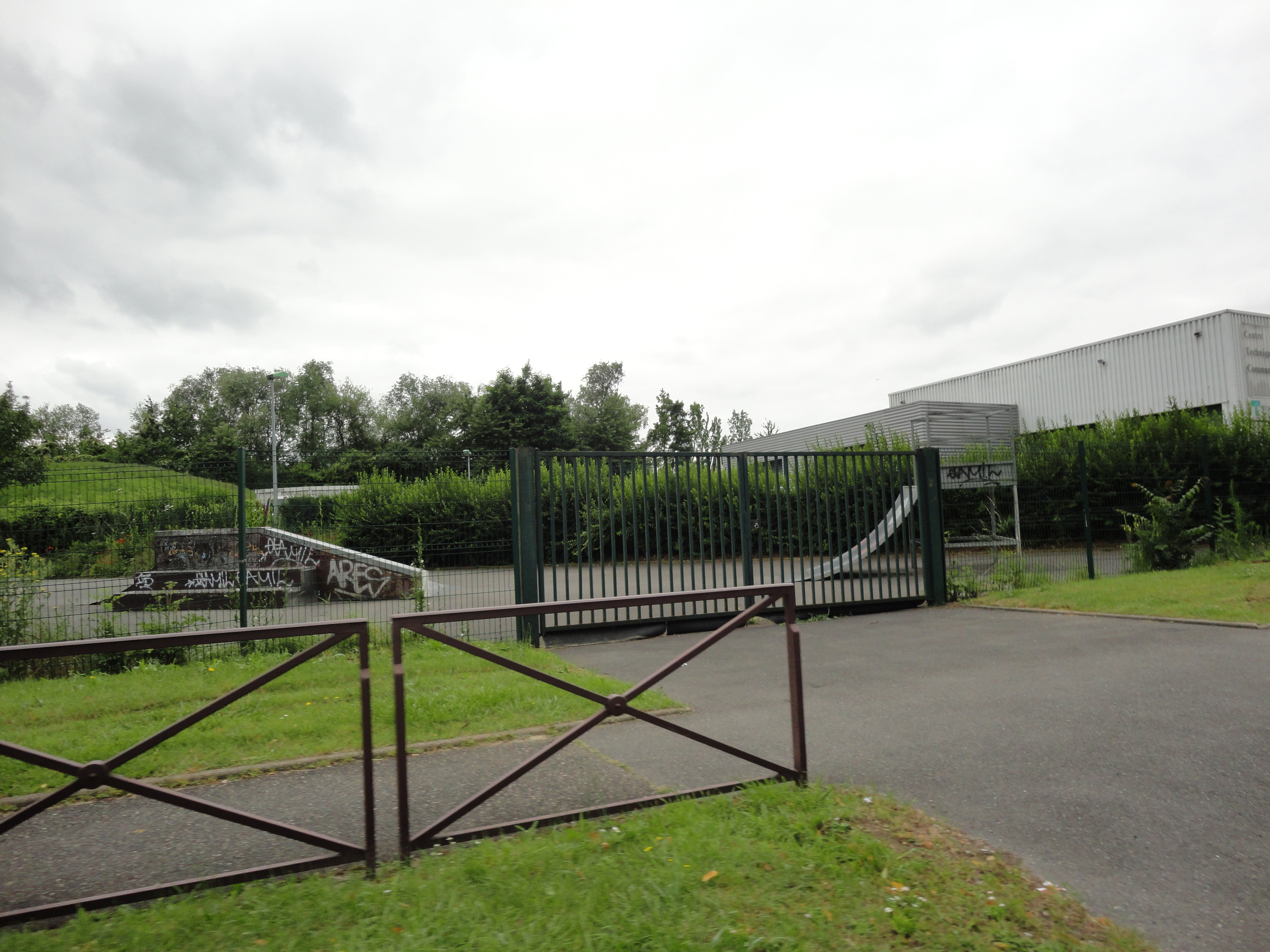 Skate park of Torcy